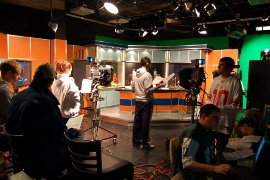 The CitrusTV studio before a taping of a CitrusTV sports show.